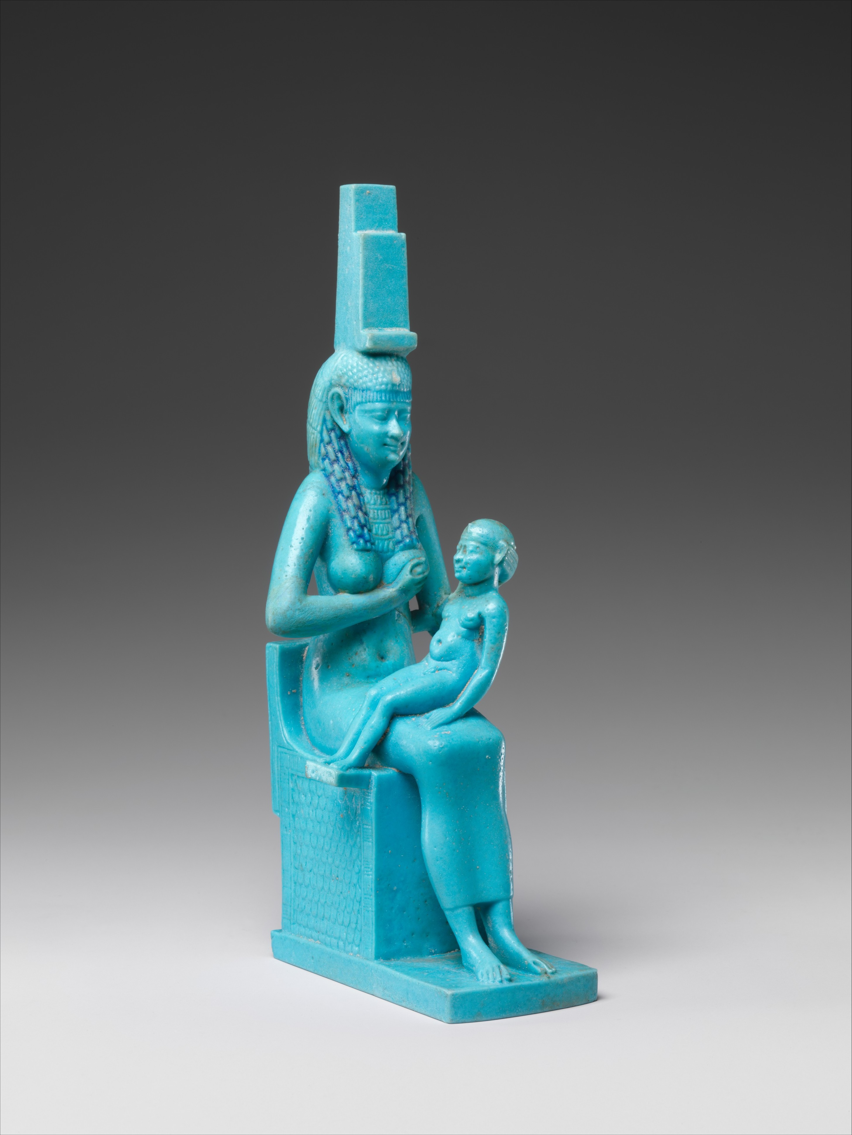 Statuette of Isis with the Horus child